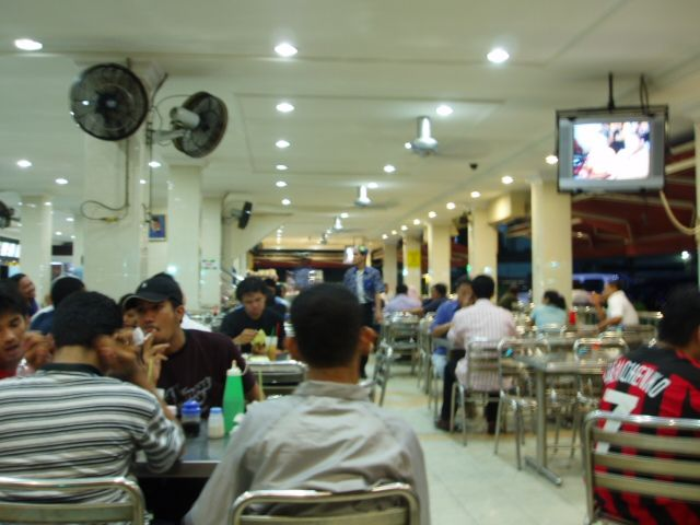 A modern Malaysian Mamak restaurant.